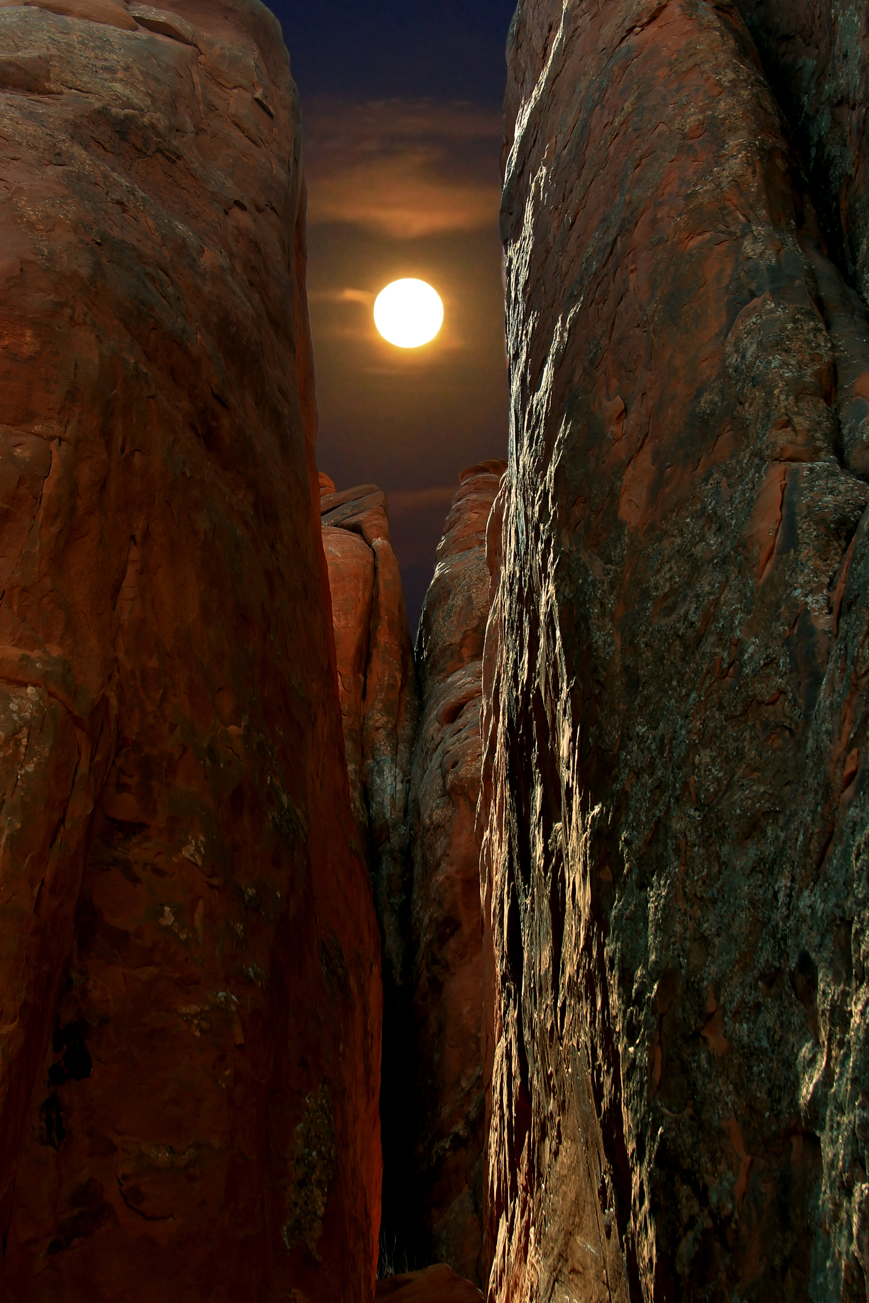 Fiery Furnace is a maze of tall sandstone towers, and this image depicts the night of a full moon with all its reflections.